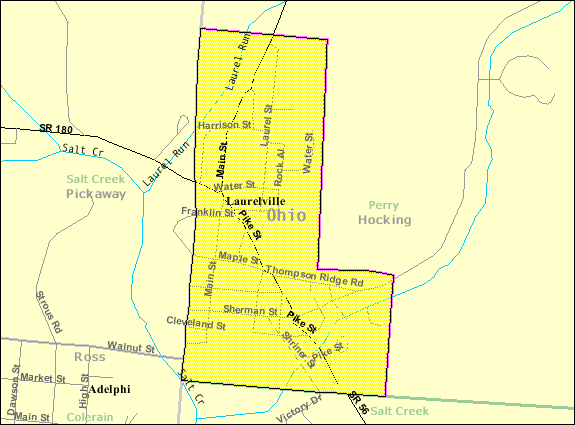 Map of Laurelville, a village in Jackson County, Ohio, United States, with its boundaries at the time of the 2000 census.